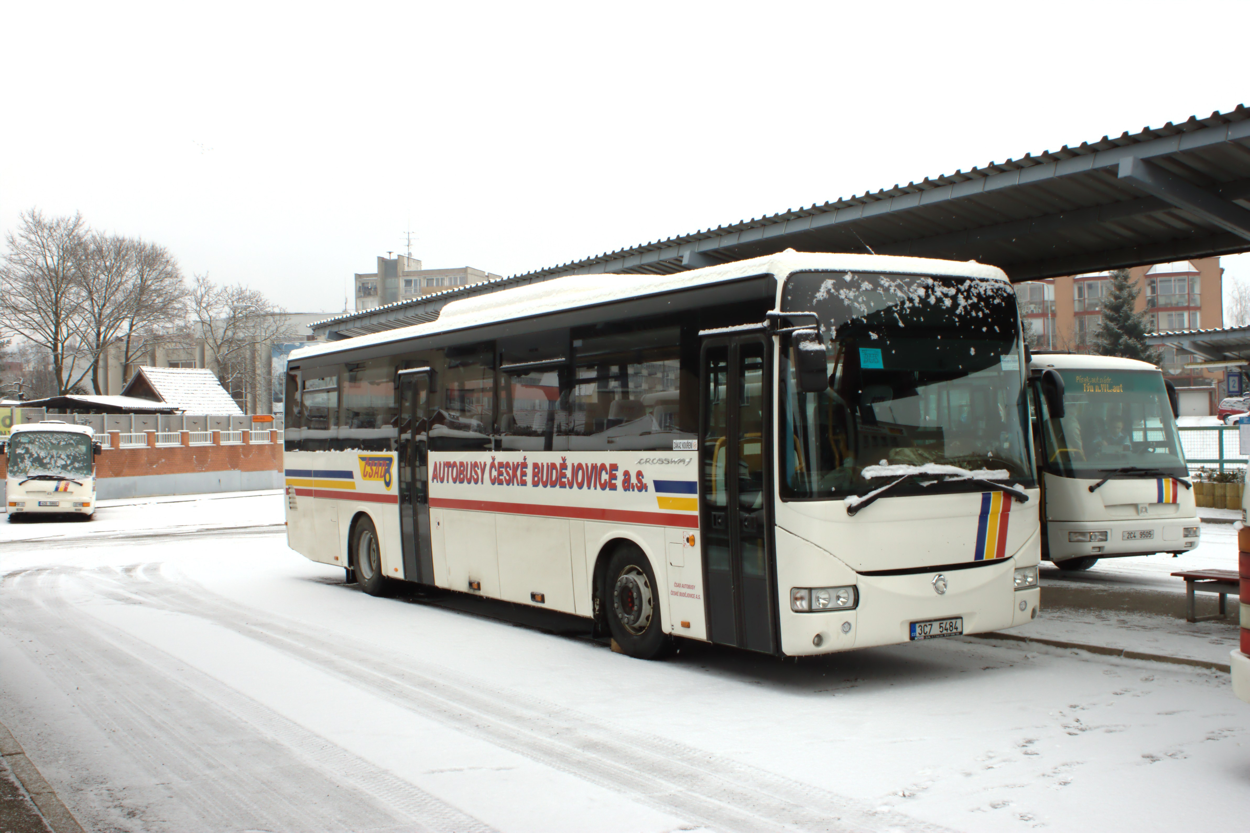 Intercity Irisbus Crossway at Písek main bus station, South Bohemian Region, CZ